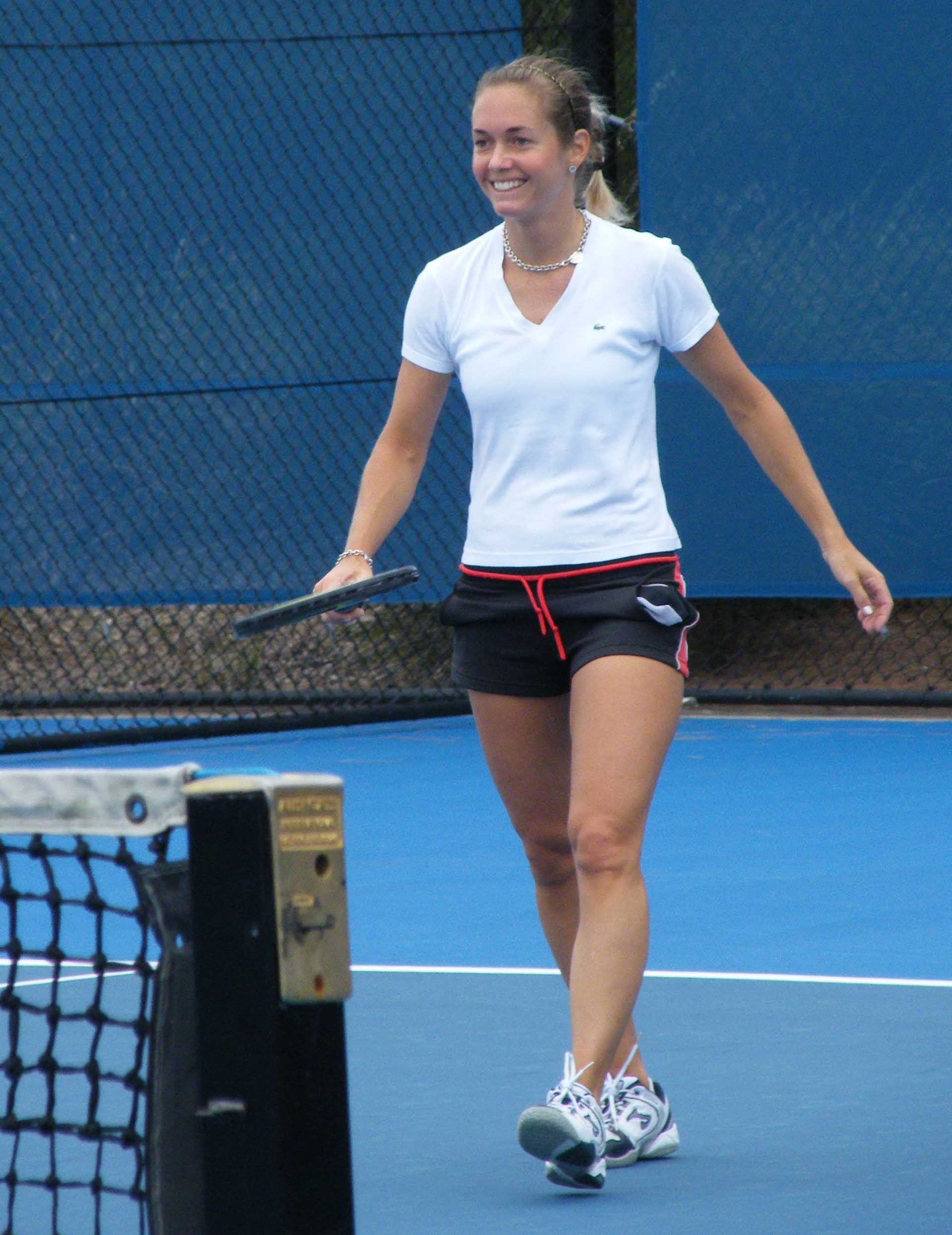 Klara Zakopalova from the Czech Republic - NSW Tennis Open, January 2009.